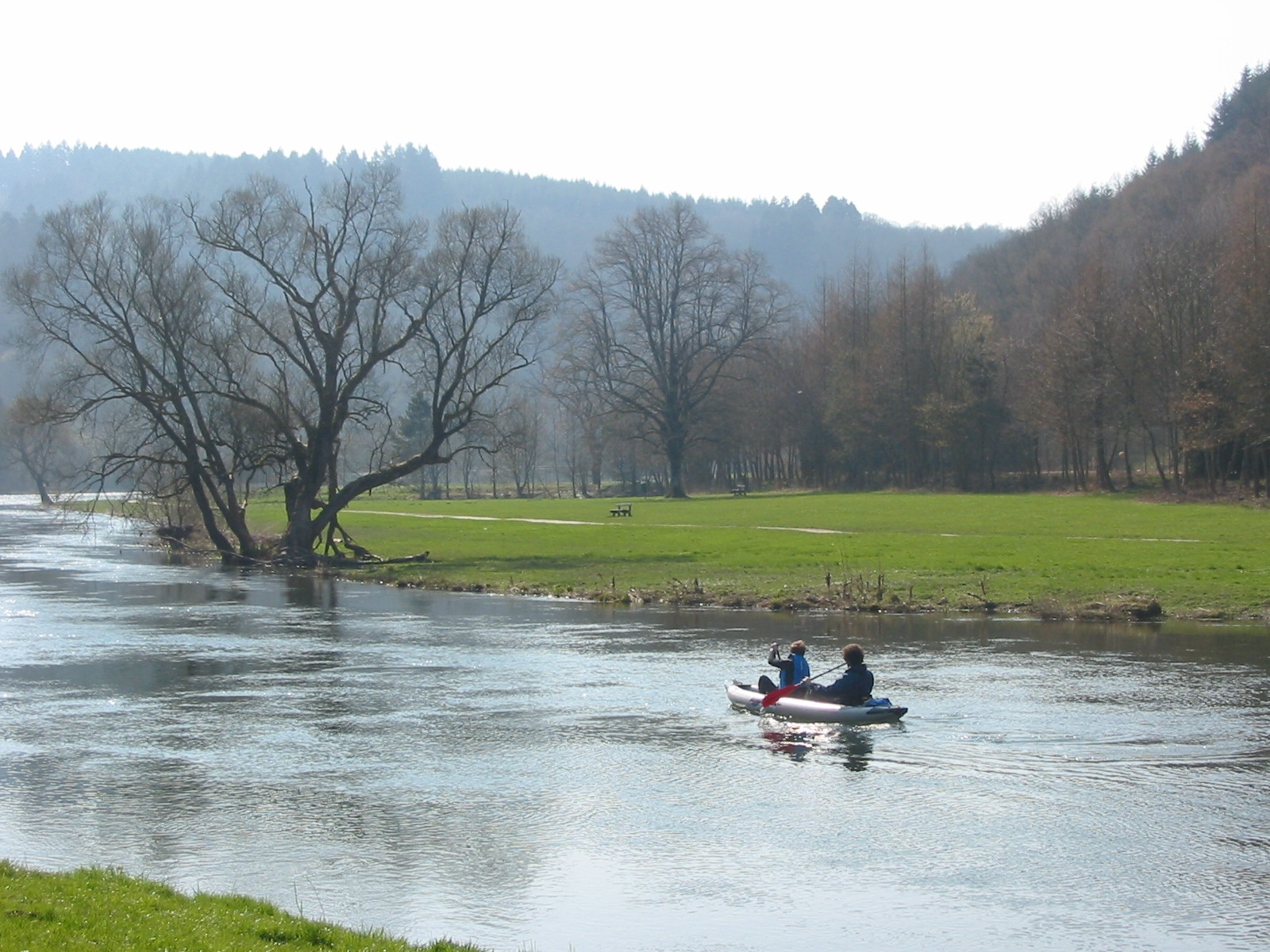 the Semois river